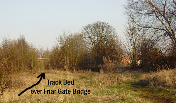 the track bed over Friar Gate Bridge, the remains of he station platform may be found under the scrub on the right. photo showing the location of the Friar Gate station